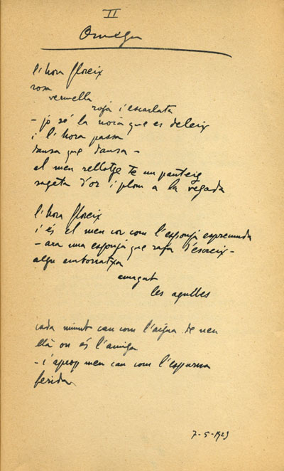 Omega, handwritten poem in Catalan by Joan Salvat-Papasseit published in the posthumous book Ossa Menor on 1925.